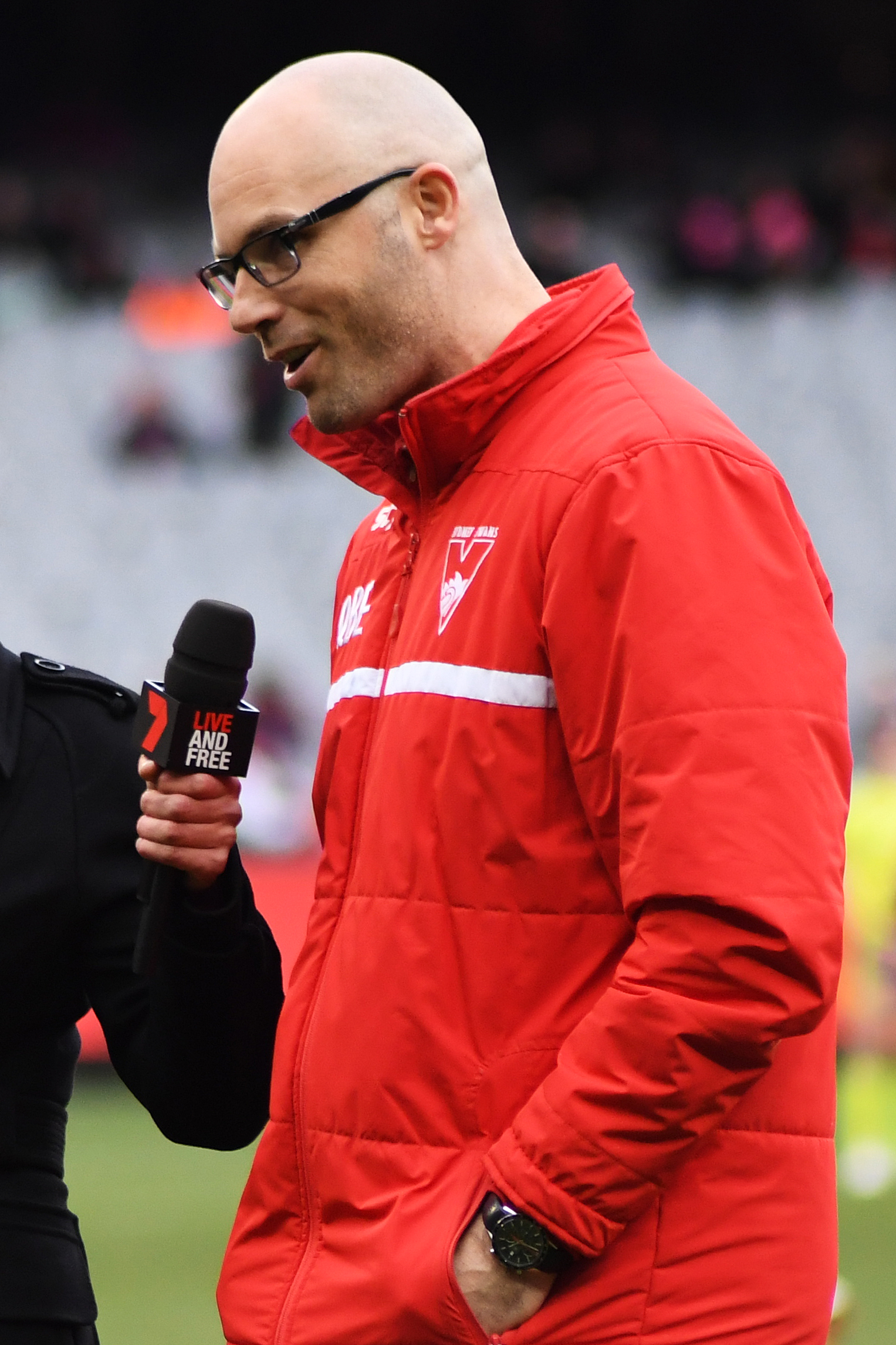 Tom Harley of Sydney during the 2018 AFL round 21 match between Melbourne and Sydney at the Melbourne Cricket Ground on Sunday, 12 August 2018 in Melbourne, Victoria.